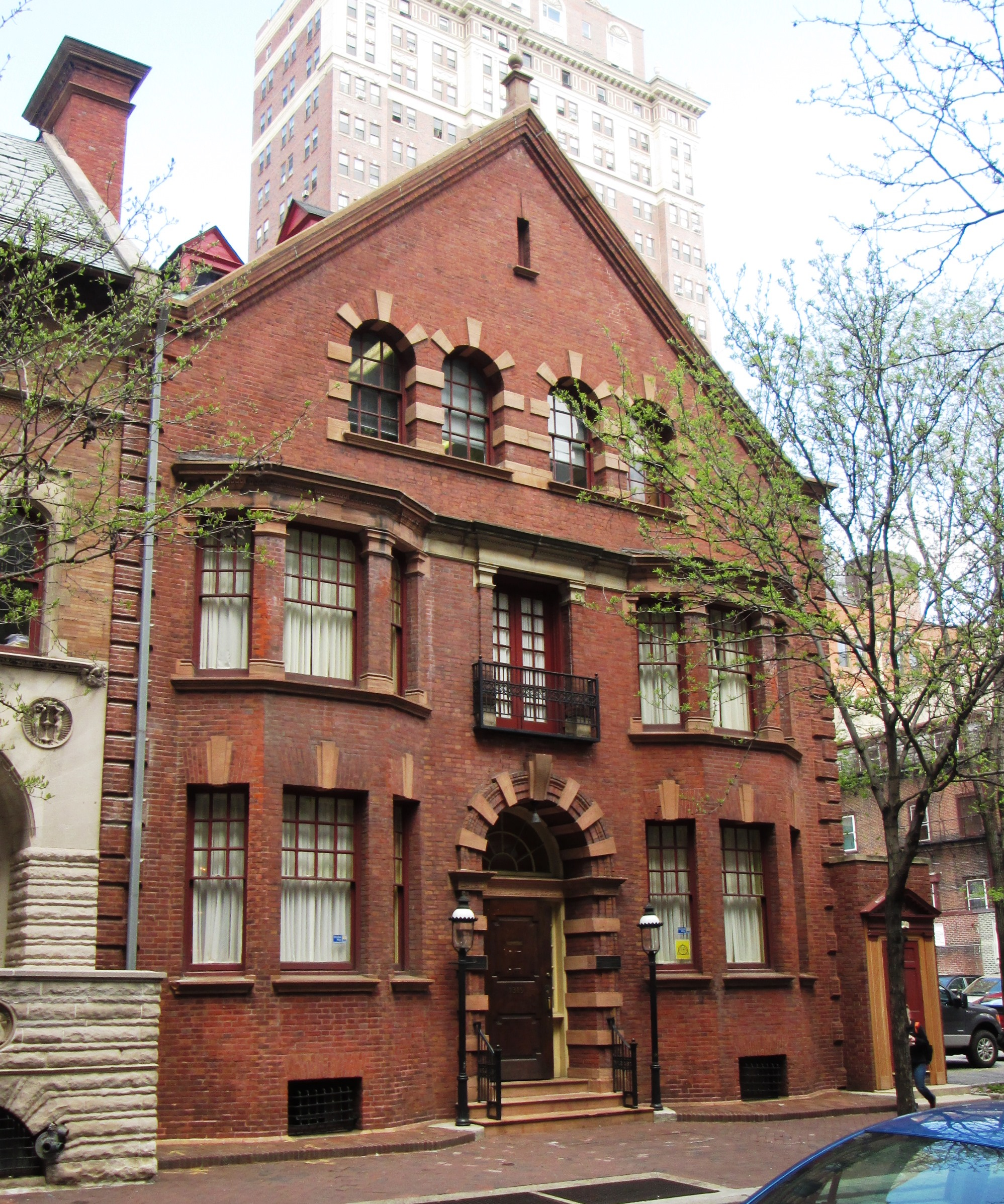 The Dr. Joseph Leidy House is a historic house located at 1319 Locus Street between S. 13th and S. Juniper Streets in the Washington Square West neighborhood of Philadelphia, Pennsylvania, next to the Clarence B. Moore House, designed by the same architect in 1890. The Leidy House was built in 1893 and was designed by noted architect Wilson Eyre to be the home of Joseph Leidy, a noted American paleontologist. From 1925 to 1979, the house served as the clubhouse of the now-defunct Poor Richard Club, whose members worked in advertising, and, with the Moore House next door, was part of the Charles Morris Price School of Advertising and Journalism. Currently, it is the headquarters of District 1199C, the National Union of Hospital and Health Care Employees.